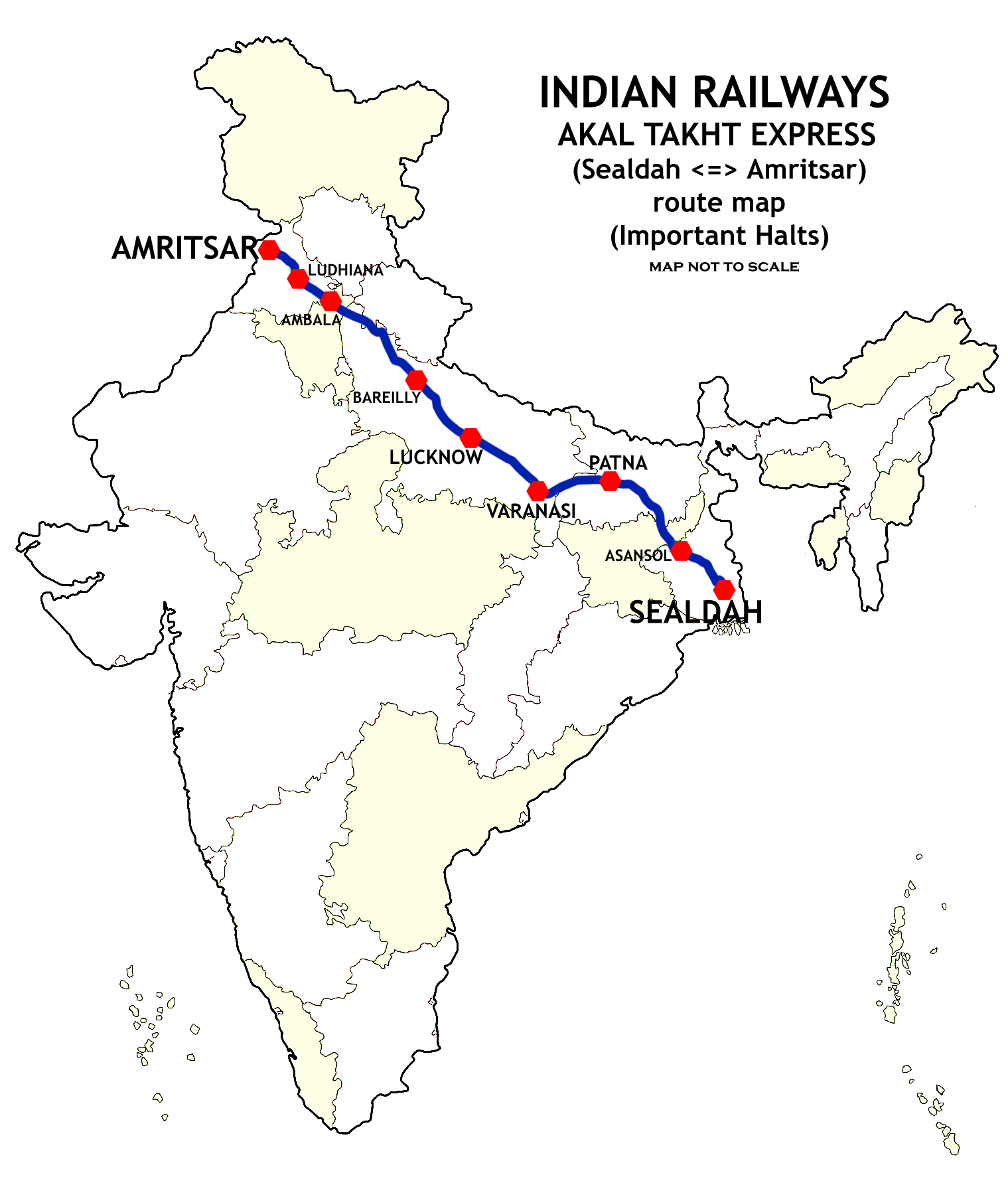 Akal Takht Express (sealdah - amritsar) Route map